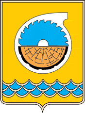 Biryusinsk (Irkutsk oblast), coat of arms (1977)